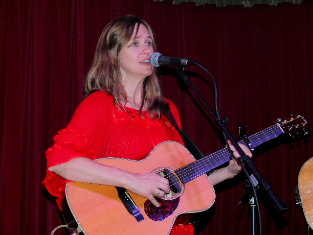 Caroline Herring at Cactus Cafe in Austin, TX. Photo by Ron Baker.